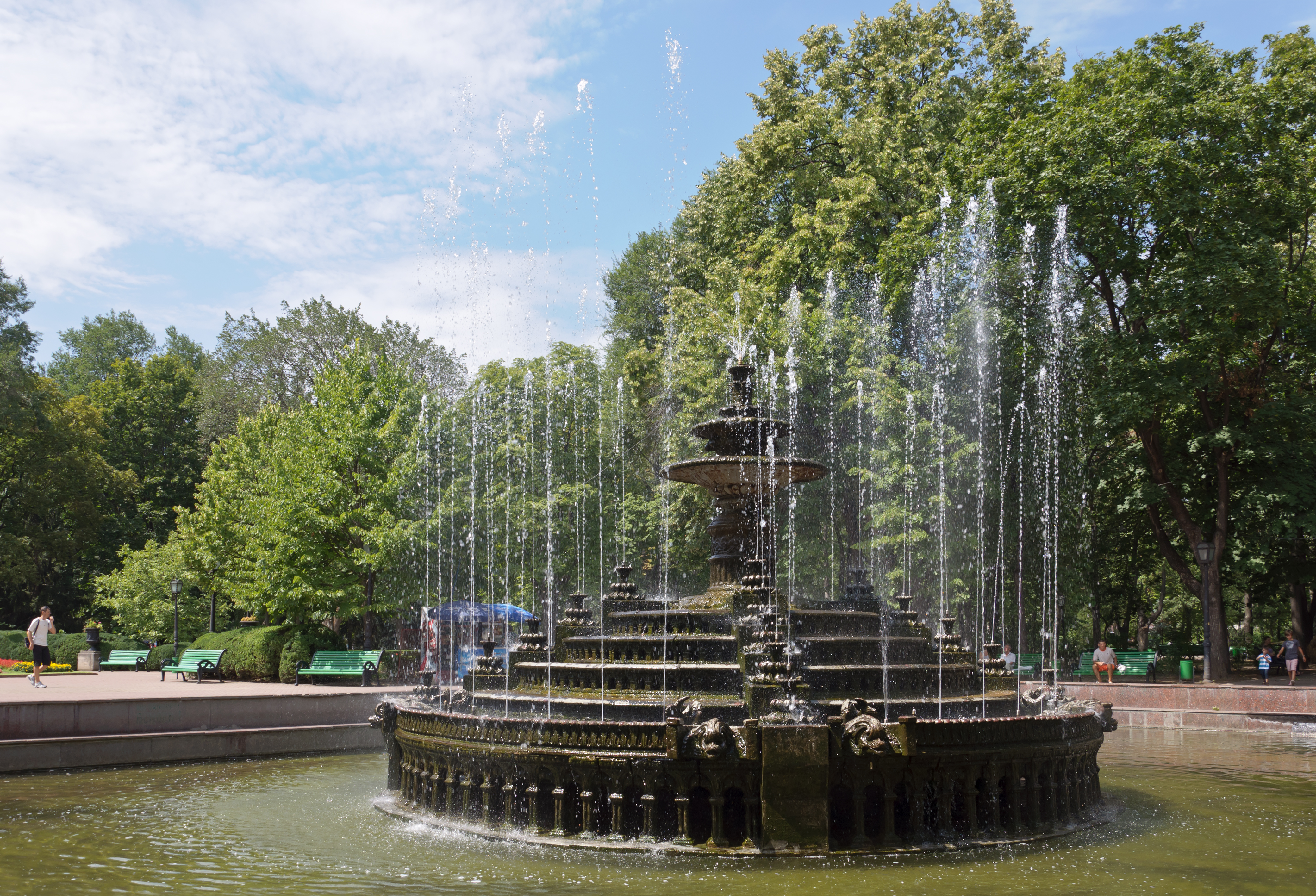 Fountain in Ştefan cel Mare Central Park, Chişinău, Moldova.